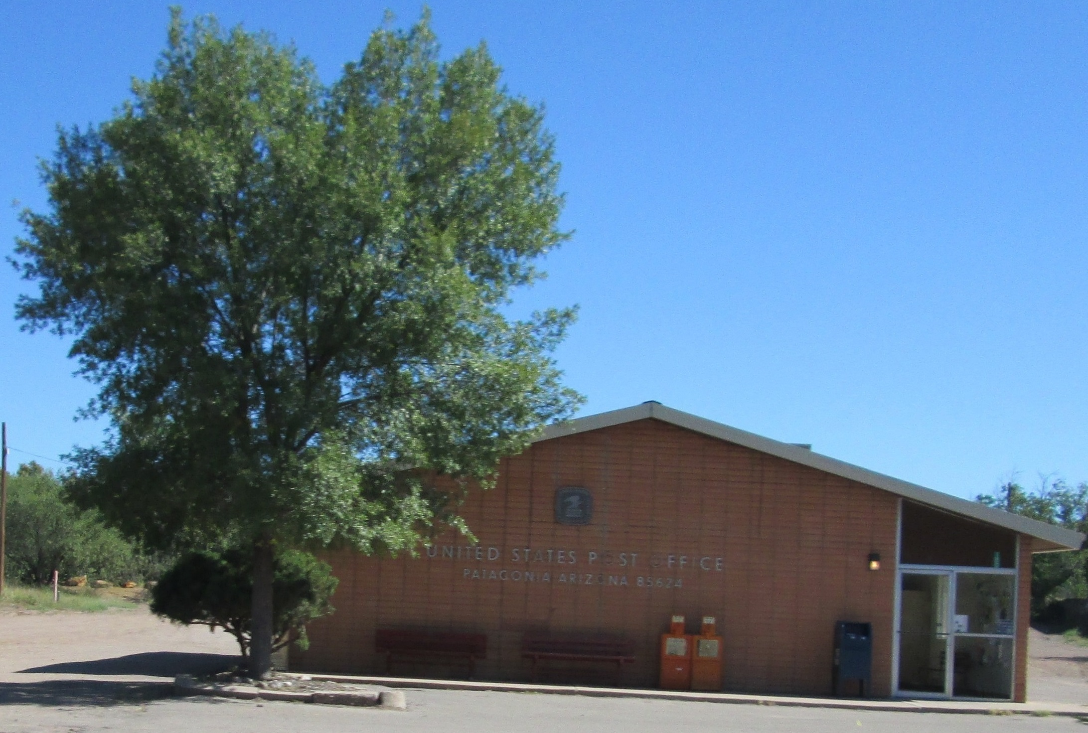 The post office in Patagonia, Arizona.